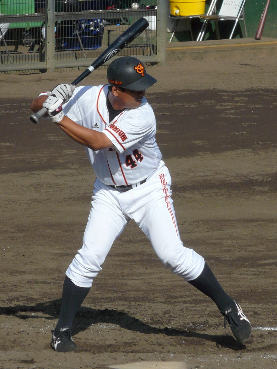 Noriyoshi Omichi, outfielder of the Yomiuri Giants, at Yomiuri Giants Stadium.